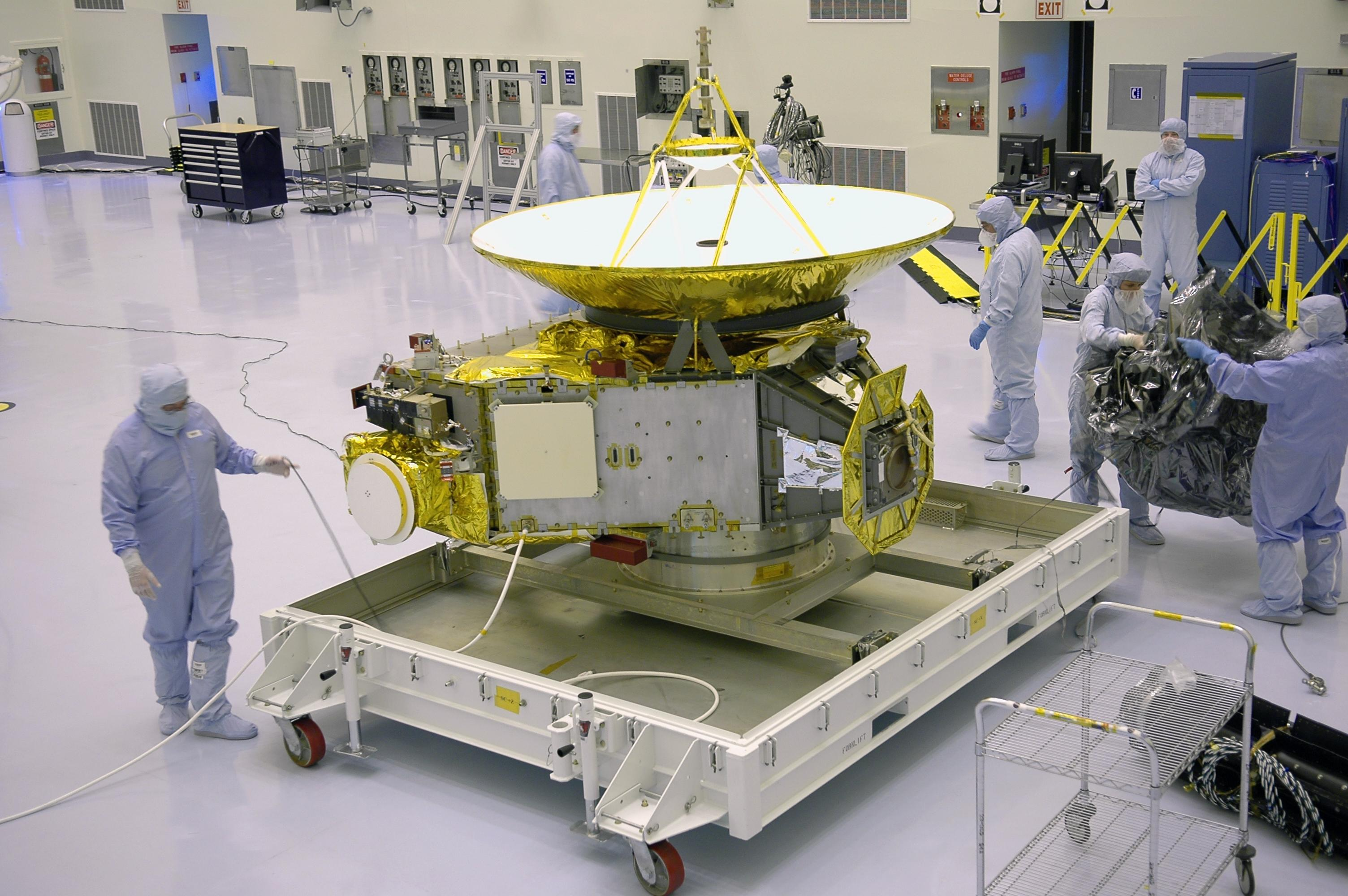 In NASA Kennedy Space Center’s Payload Hazardous Servicing Facility, workers finish removing the protective cover around the New Horizons spacecraft. The spacecraft will be moved to a work stand for a checkout (Sept. 25, 2005).